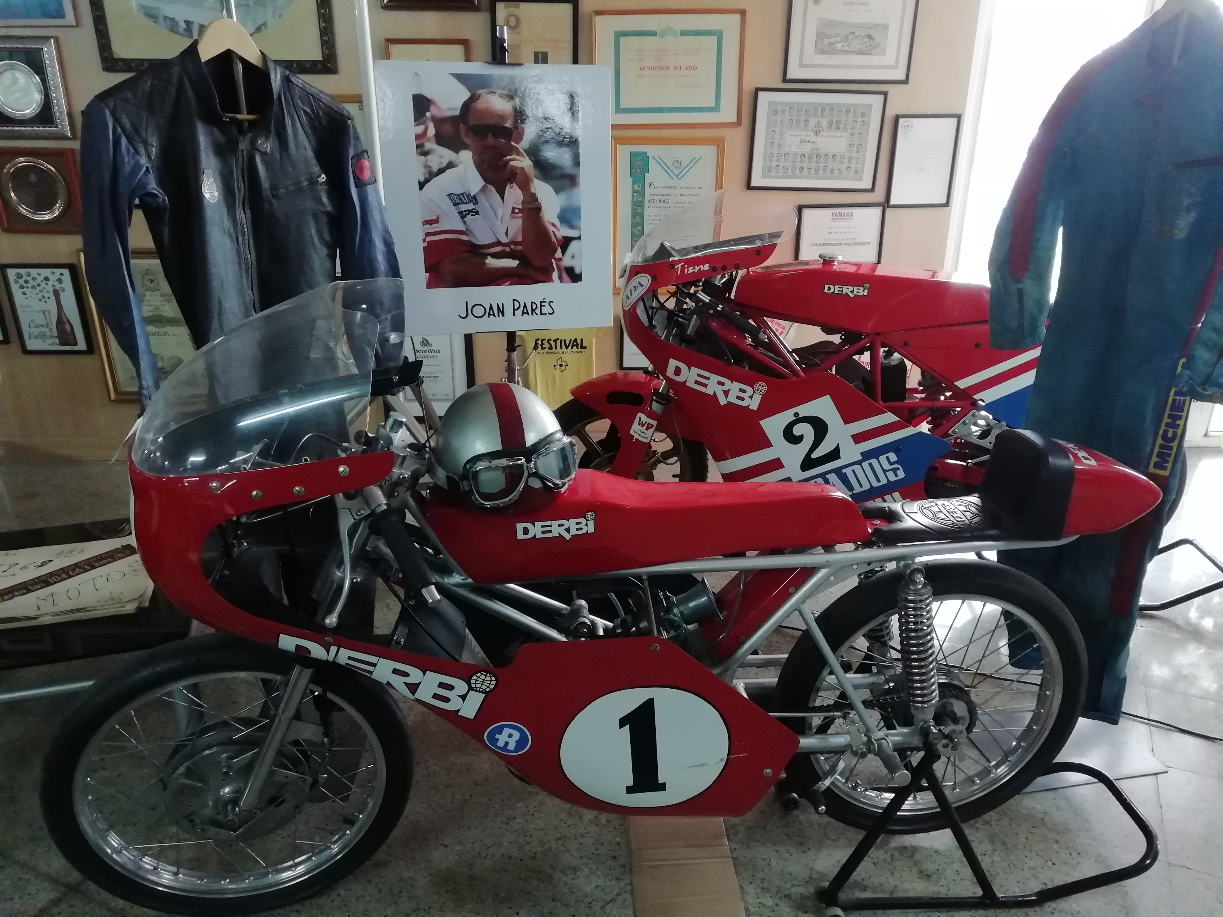 Derbi 50cc GP 1970 re-built.Isern Motorcycle Museum, Mollet del Vallès (Catalonia).